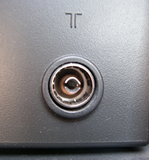 A Belling-Lee connector jack on the back of a Sony television.